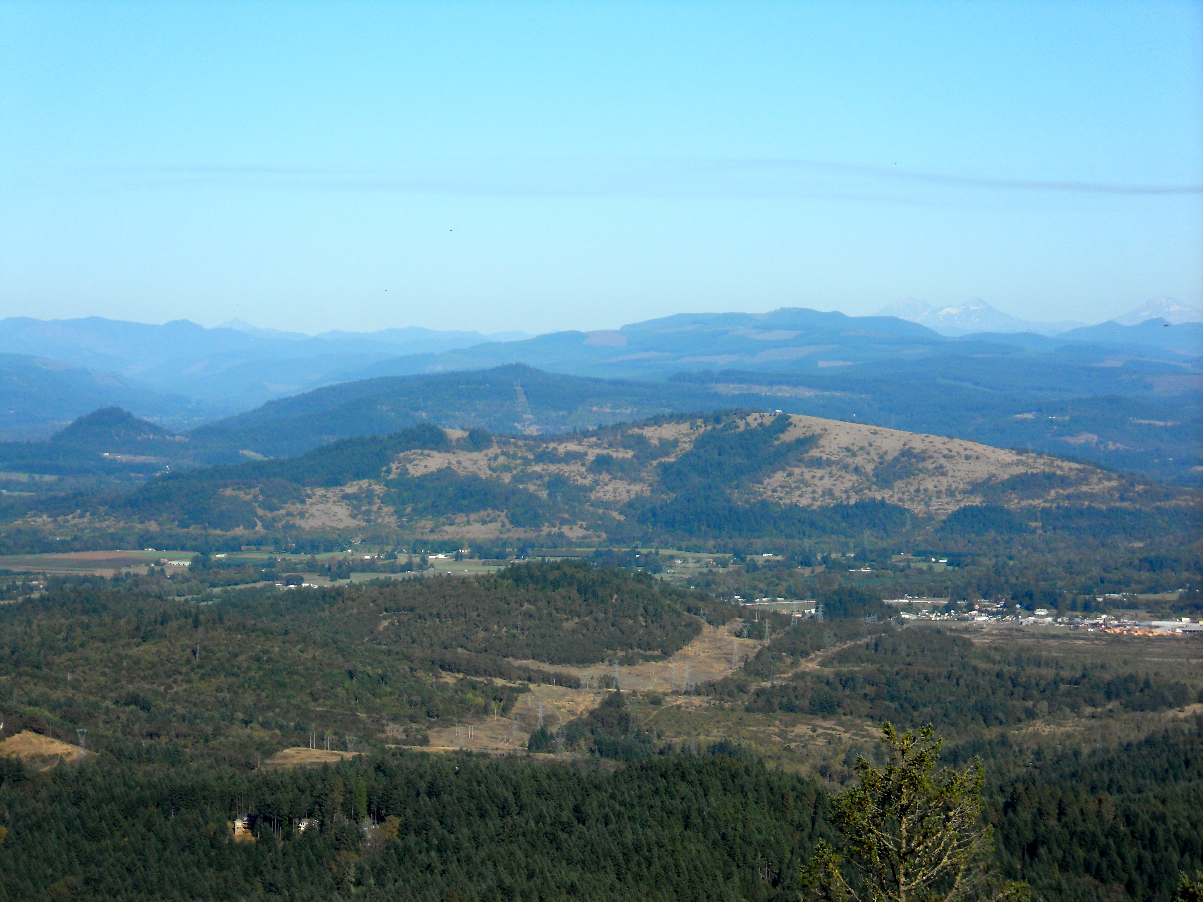 Mount Pisgah in Oregon as seen from nearby Spencer Butte, looking east, with the Three Sisters in the hazy background (right)